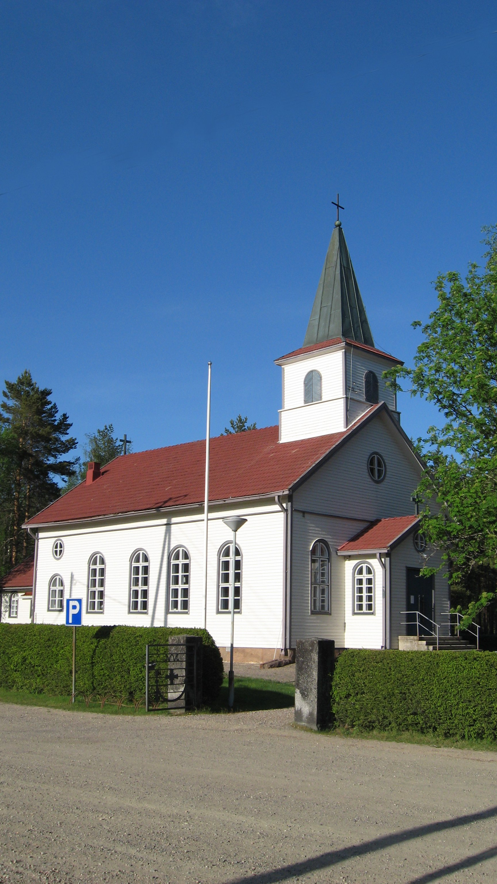 Kauhajärvi church in Kauhajärvi village, Kauhajoki, Finland.